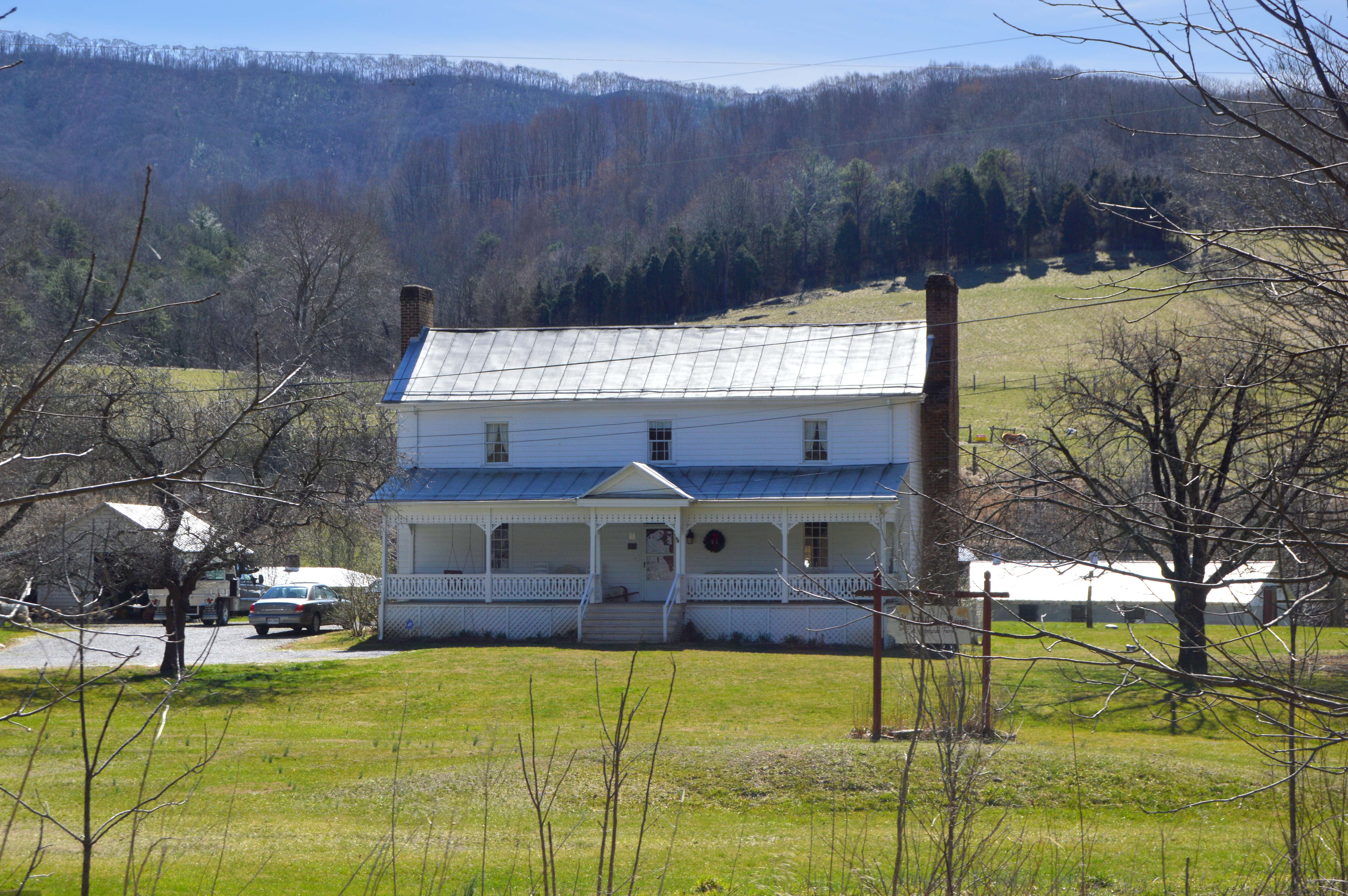 Front of the Huffman House, located on State Route 42 east of Newport in Craig County, Virginia, United States. Built in 1835, it is listed on the National Register of Historic Places.